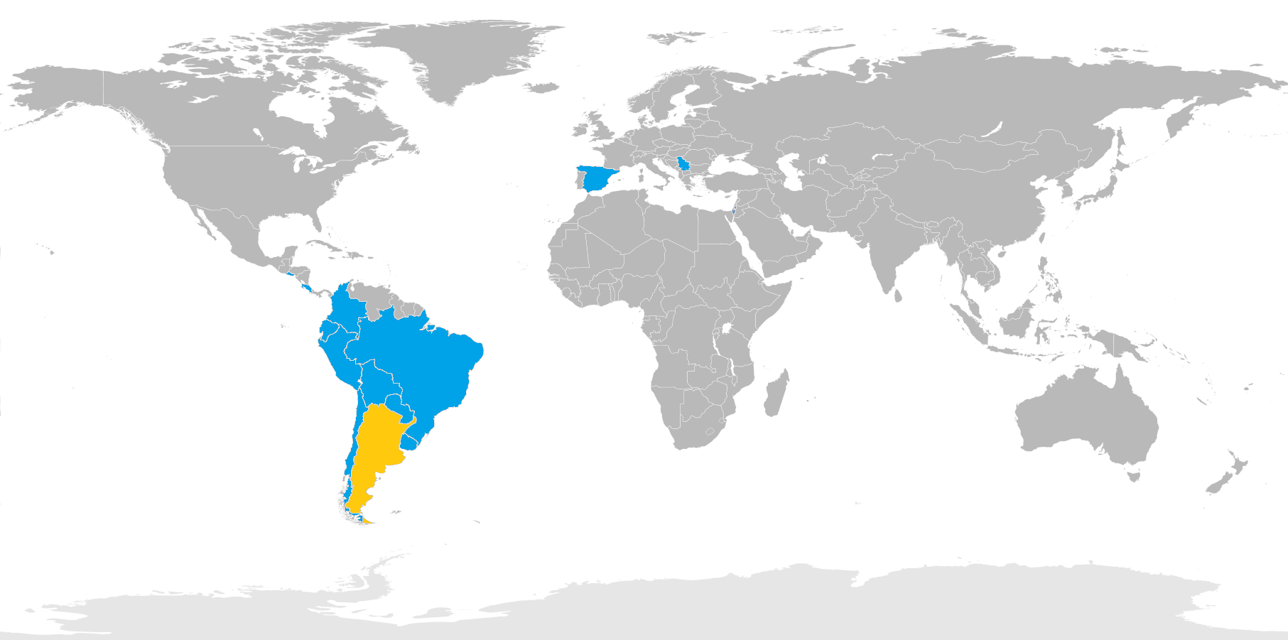 Heads of states and governments attending the ceremony.